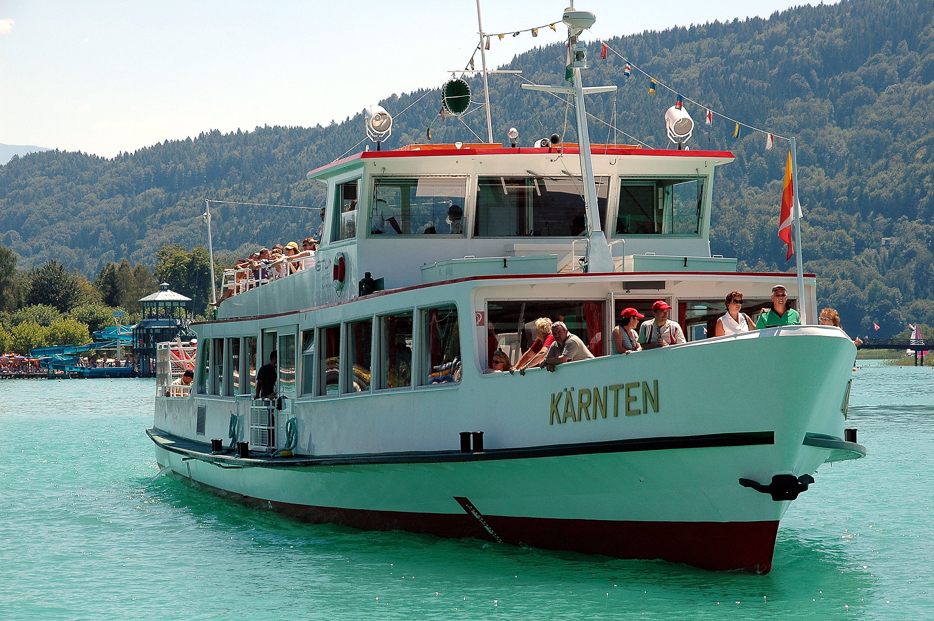 Motorship "Kaernten" at the landing stage “Werzerstrand”, municipality Pörtschach am Wörther See, district Klagenfurt Land, Carinthia, Austria, EU